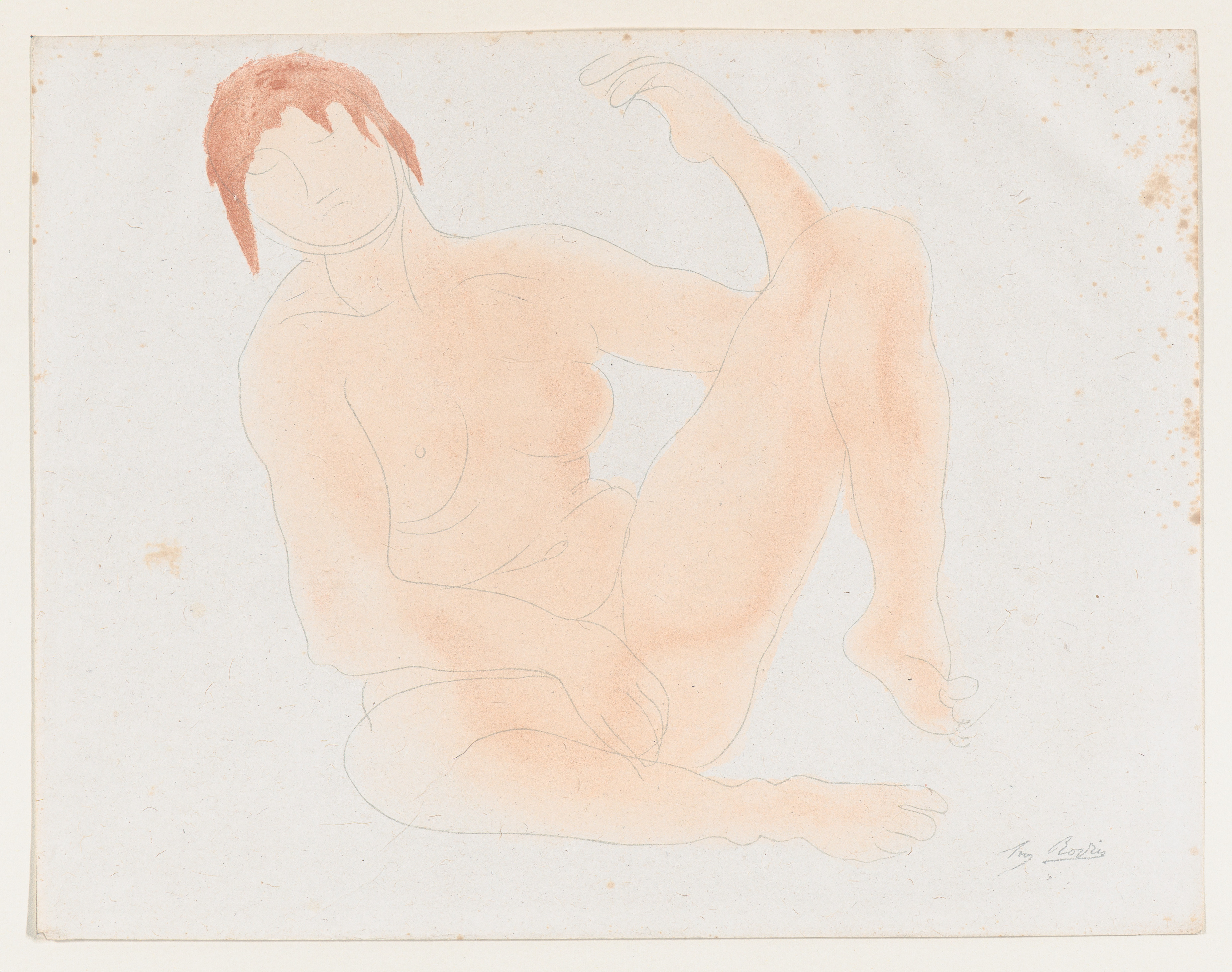 Print; Prints